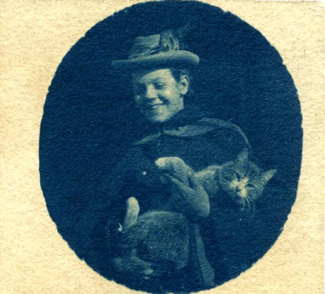 Florence Luscomb holding her cat Needles, ca. 1893. Catalog Record: Questions?